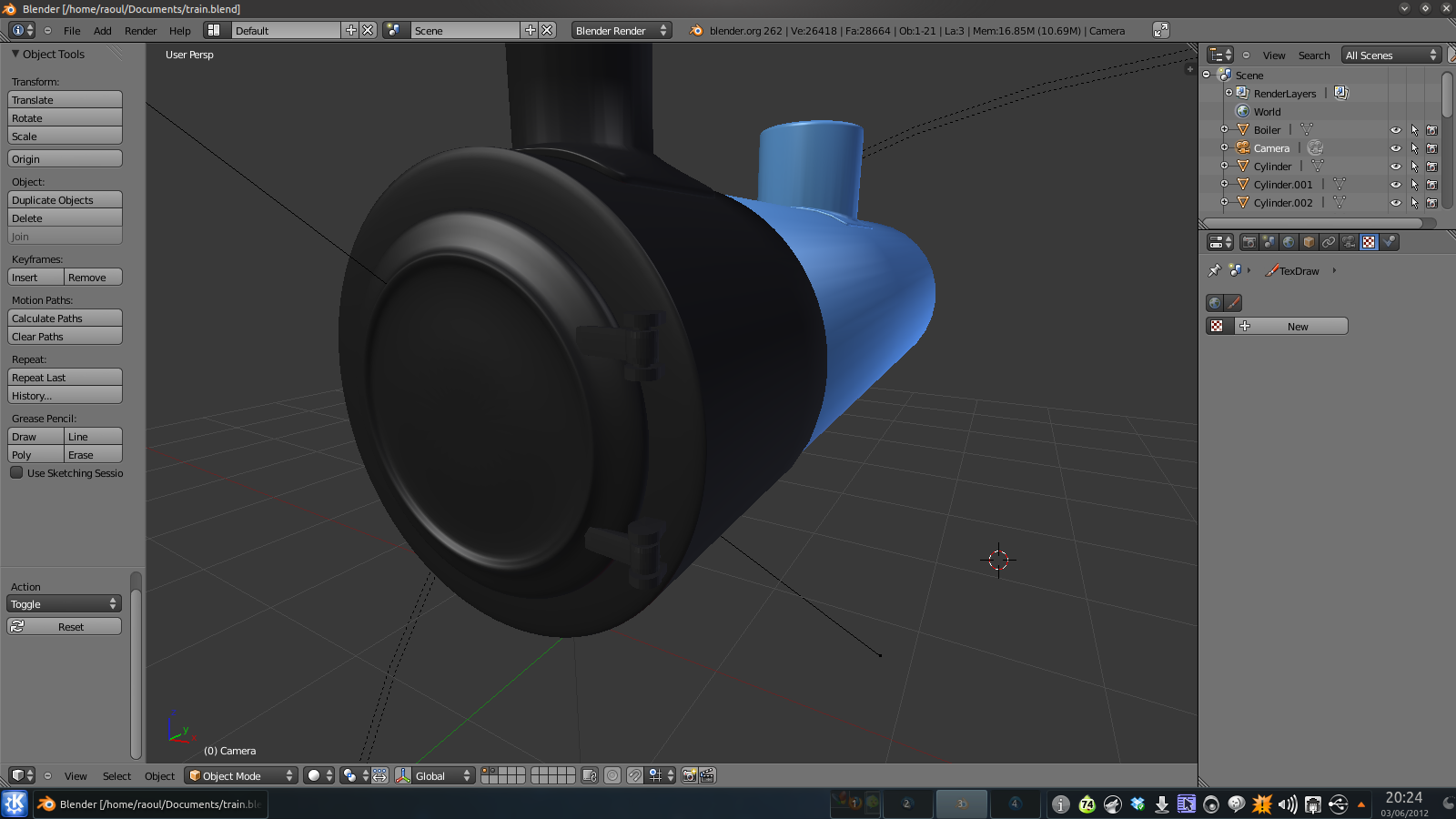 Screenshot of Blender Software. Making a 3D model of a train in this software.